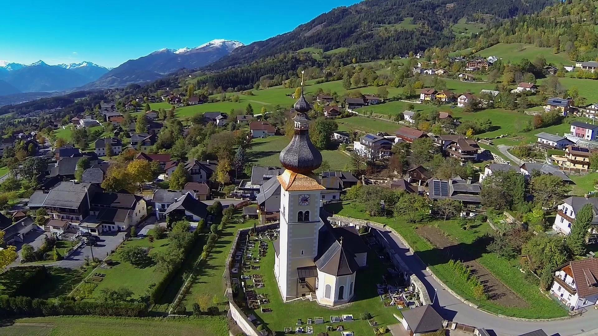 Aerial view of the Roman Catholic Church of St. Johann Baptist, cemetery, parsonage and the old center in Obermillstatt near Lake Millstatt (Millstätter See), district Spittal an der Drau in Carinthia, Austria / European Union. Photo shoot equipped with a model helicopter Multicopter DJI S800 with a GoPro-Hero3 Action-Camera, which was mounted on a self-constructed fastening for the camera. This was designed for the "Helicam project" in order for a film crew for the nature documentary series UNIVERSUM the Austrian Broadcasting Corporation. This photo comes from the movie Obermillstatt environment, DJI-S800 on air of Alexander Glinz (Tmvm77).